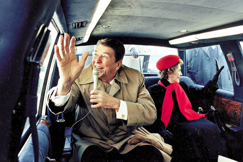 The Reagans wave to well-wishers from the presidential limousine during a 1984 parade celebrating the president's birthday in his hometown of Dixon, Illinois.